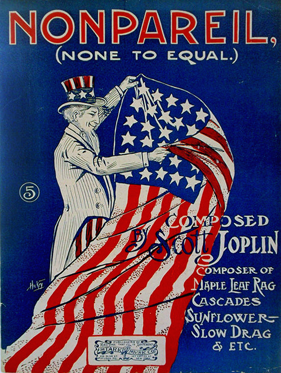 Scott Joplin sheet music cover for "Nonpareil"